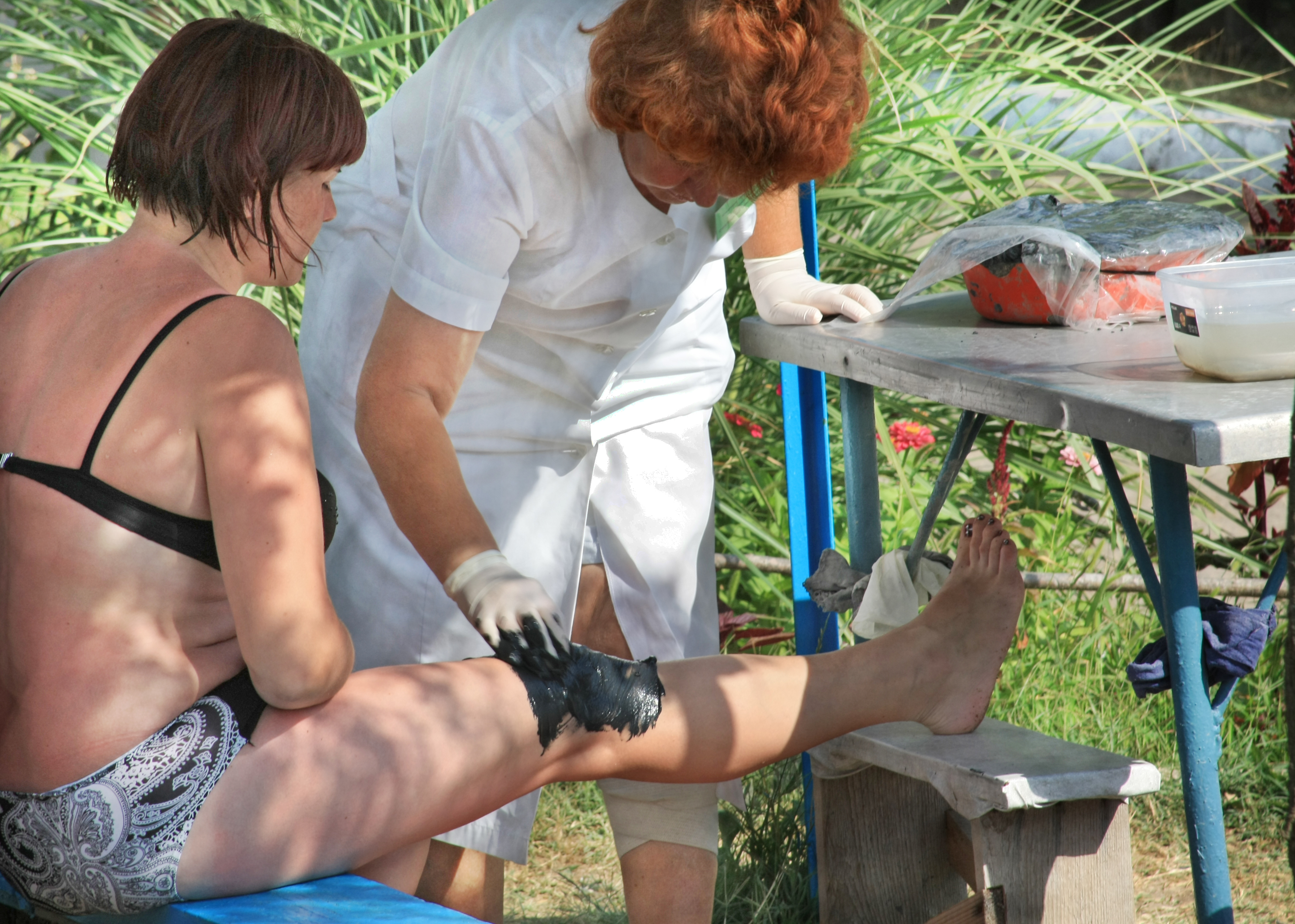 Therapeutic mud. Moynaki, Yevpatoria, Crimea